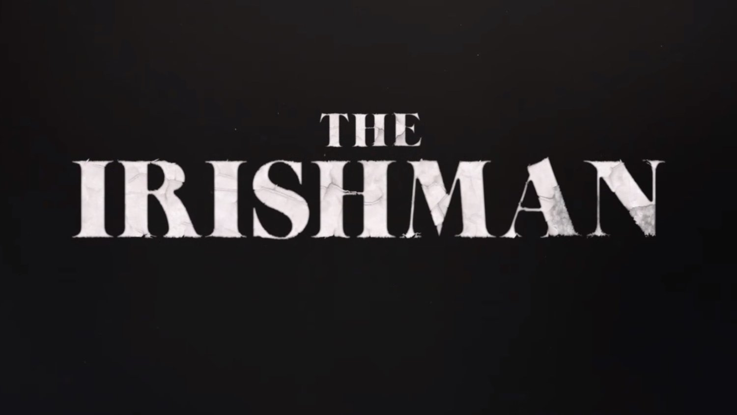 movie poster